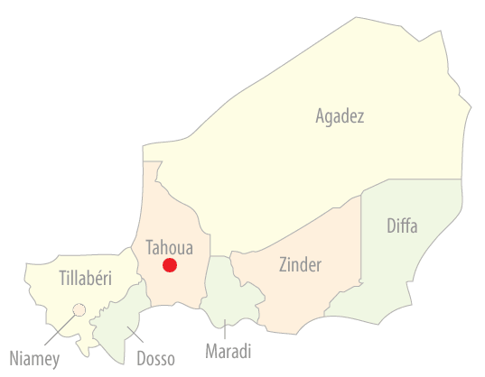 Niger cities location (Tahoua)